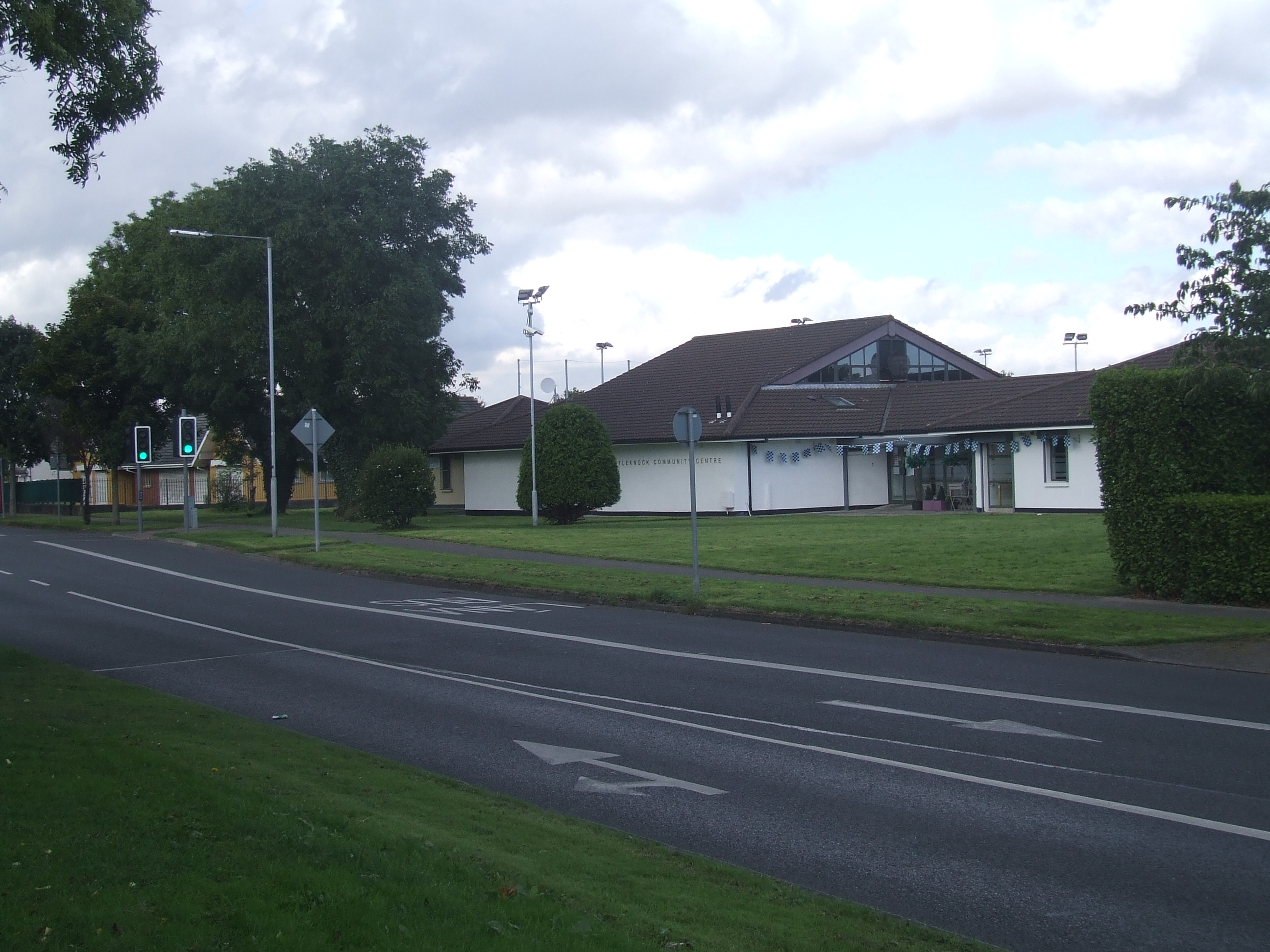 Laurel Lodge cluster of community buildings to the right of the trees are in Blanchardstown townland while to the left is Carpenterstown townland. Includes the Castleknock Community Centre in the foreground and Montessori creche in the background.